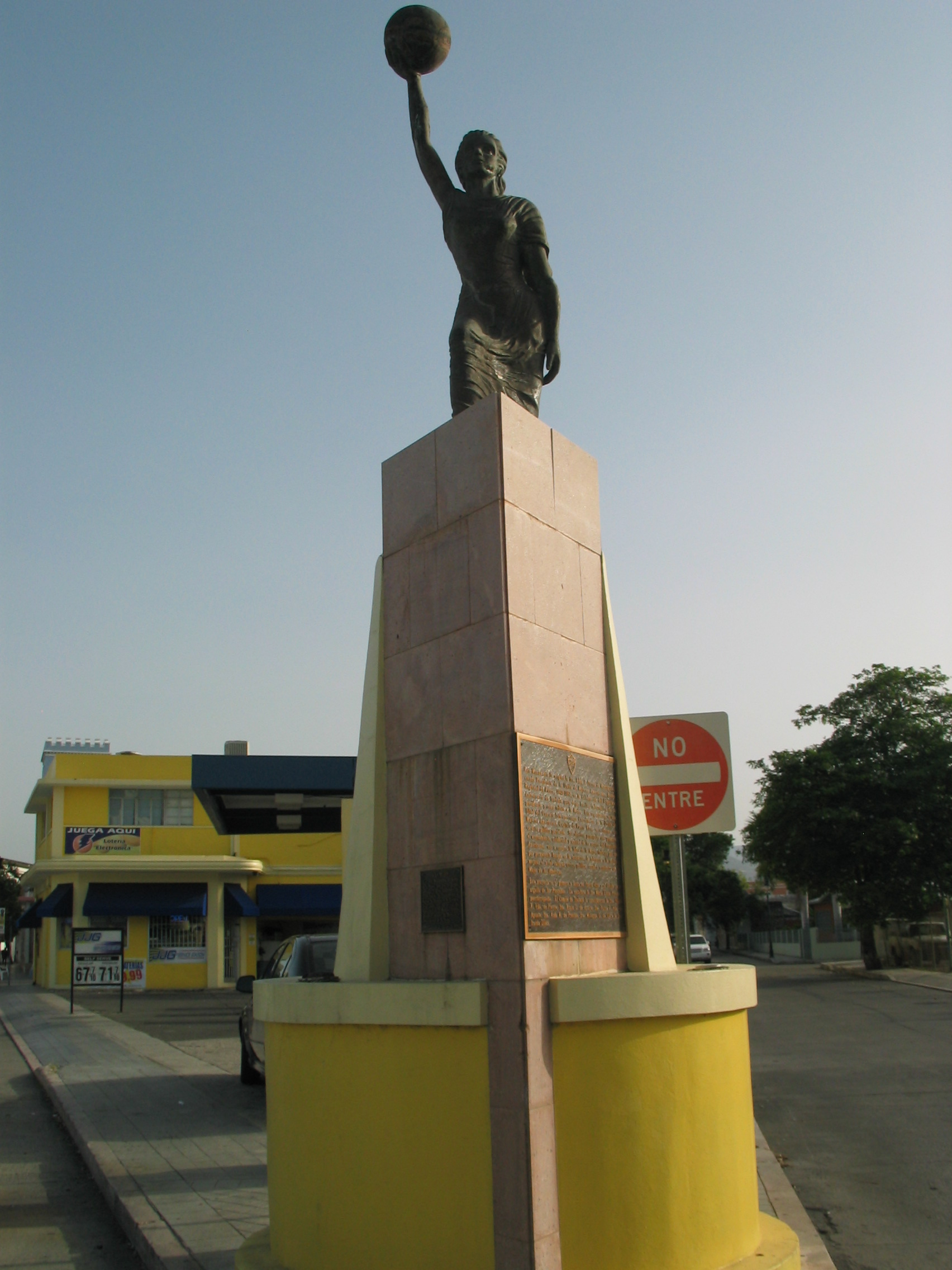 Monumento a la Mujer, en Ponce, PR (IMG2917)